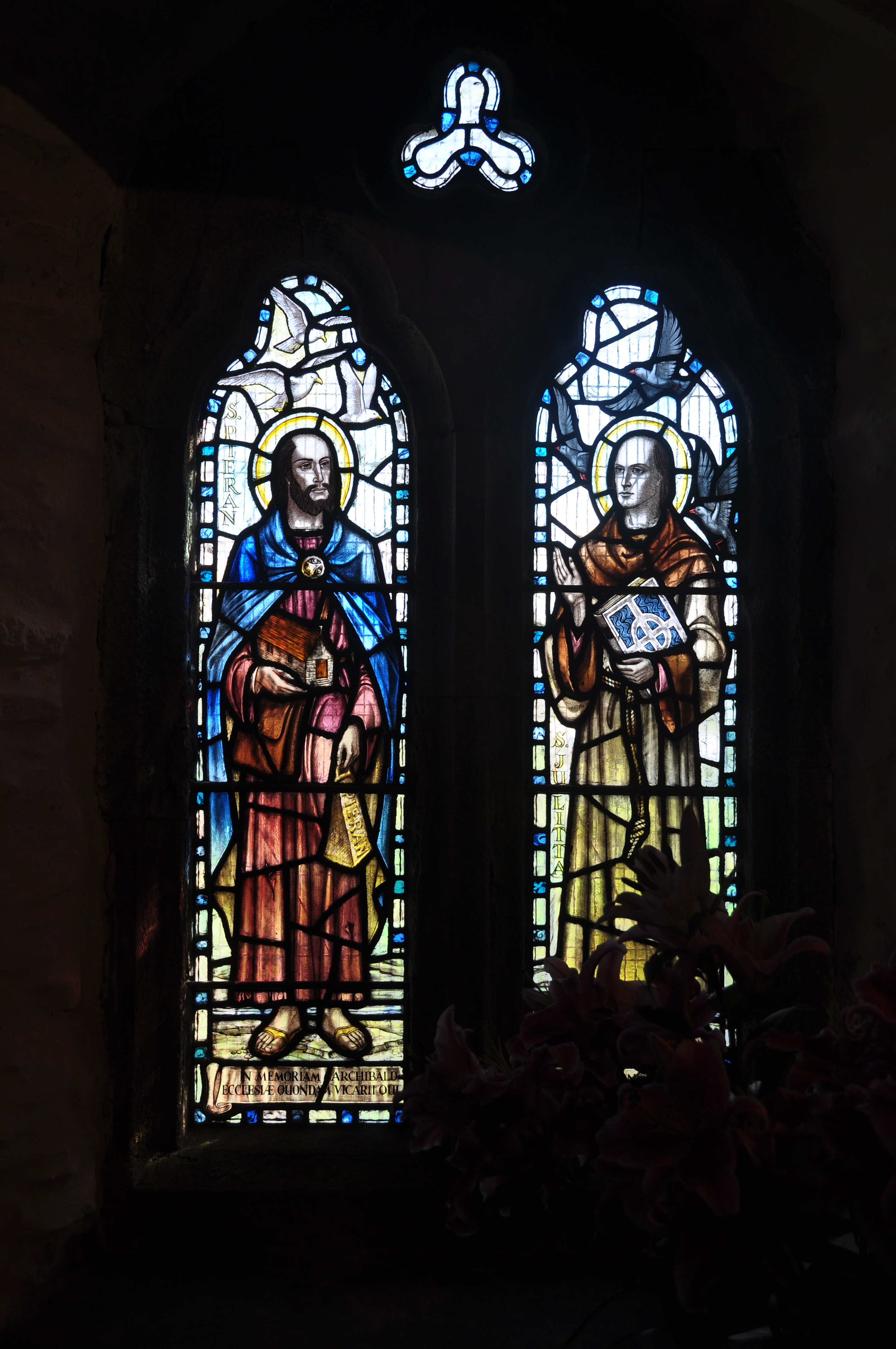 Stained glass in St Materiana's Church, Tintagel; SS. Piran and Julitta in the south wall of the chancel